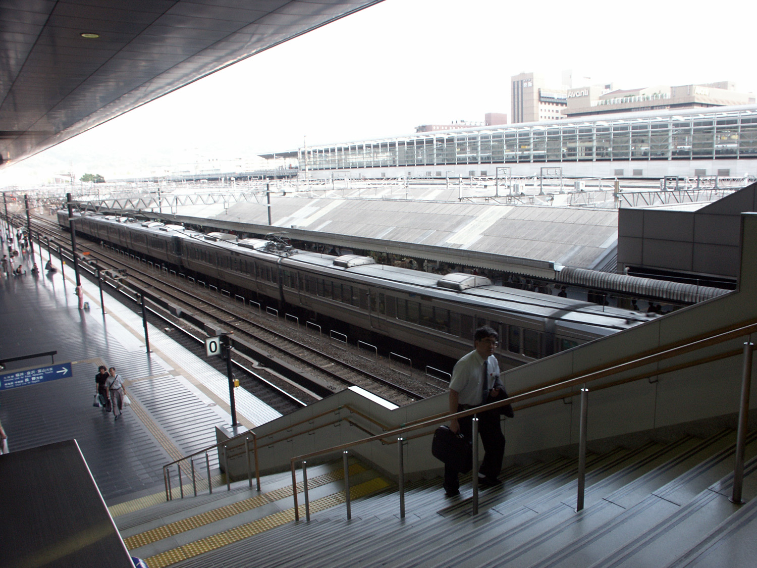 This photograph shows the tracks and a train at Kyoto Station, Japan. These are the regular train lines, not the Shinkansen. The Shinkansen tracks are in the glassed-in enclosure visible near the top of the photo. The platform is boarding location zero. I took this photo and contribute my rights in the file to the public domain; individuals and organizations retain rights to images in it.